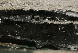 Obsidian Specimen - photo taken and uploaded by Paul Moss, Photographer, Artist, Paul Moss Photographer Artist NZ